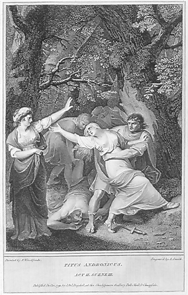 Titus Andronicus: Act II, Scene 3: Tamora's cruelty to Lavinia